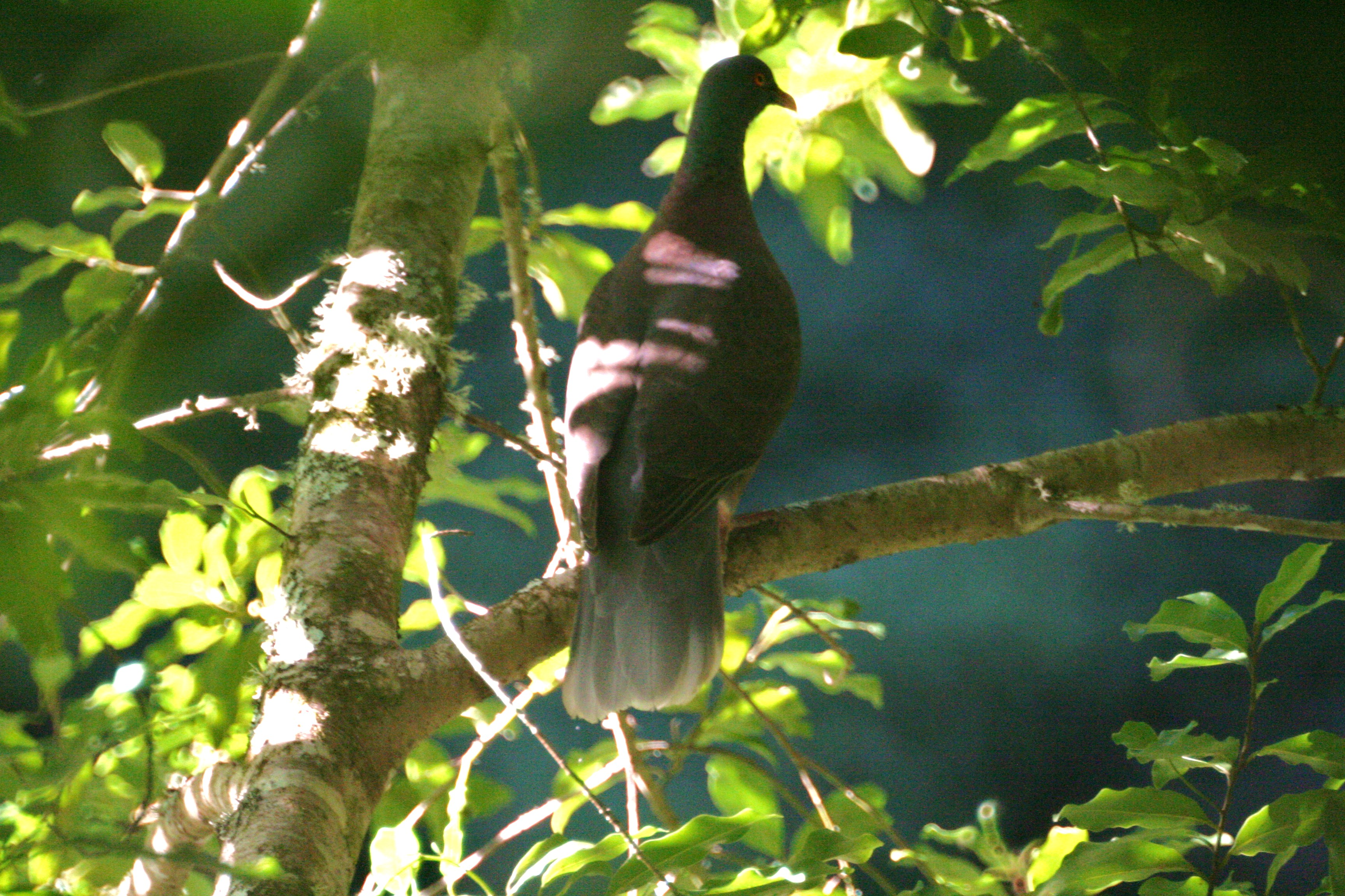 Laurel Pigeon Columba junoniae